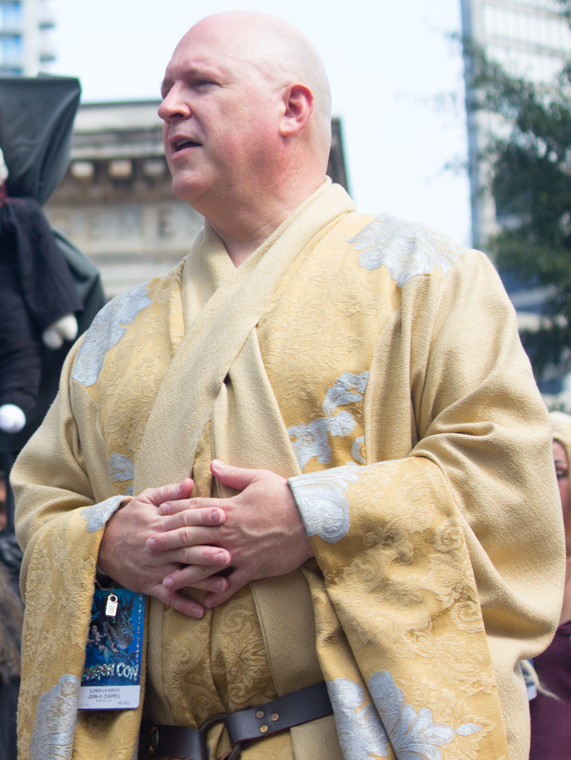 The 2013 Dragon*Con parade through Atlanta.